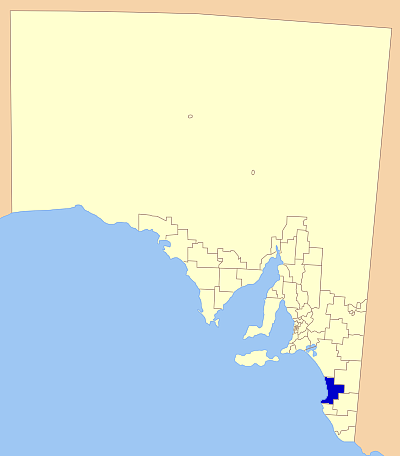 Modification of Astrokey44's original map found here: File:SA_LGA_blank.png Position of Coober pedy LGA